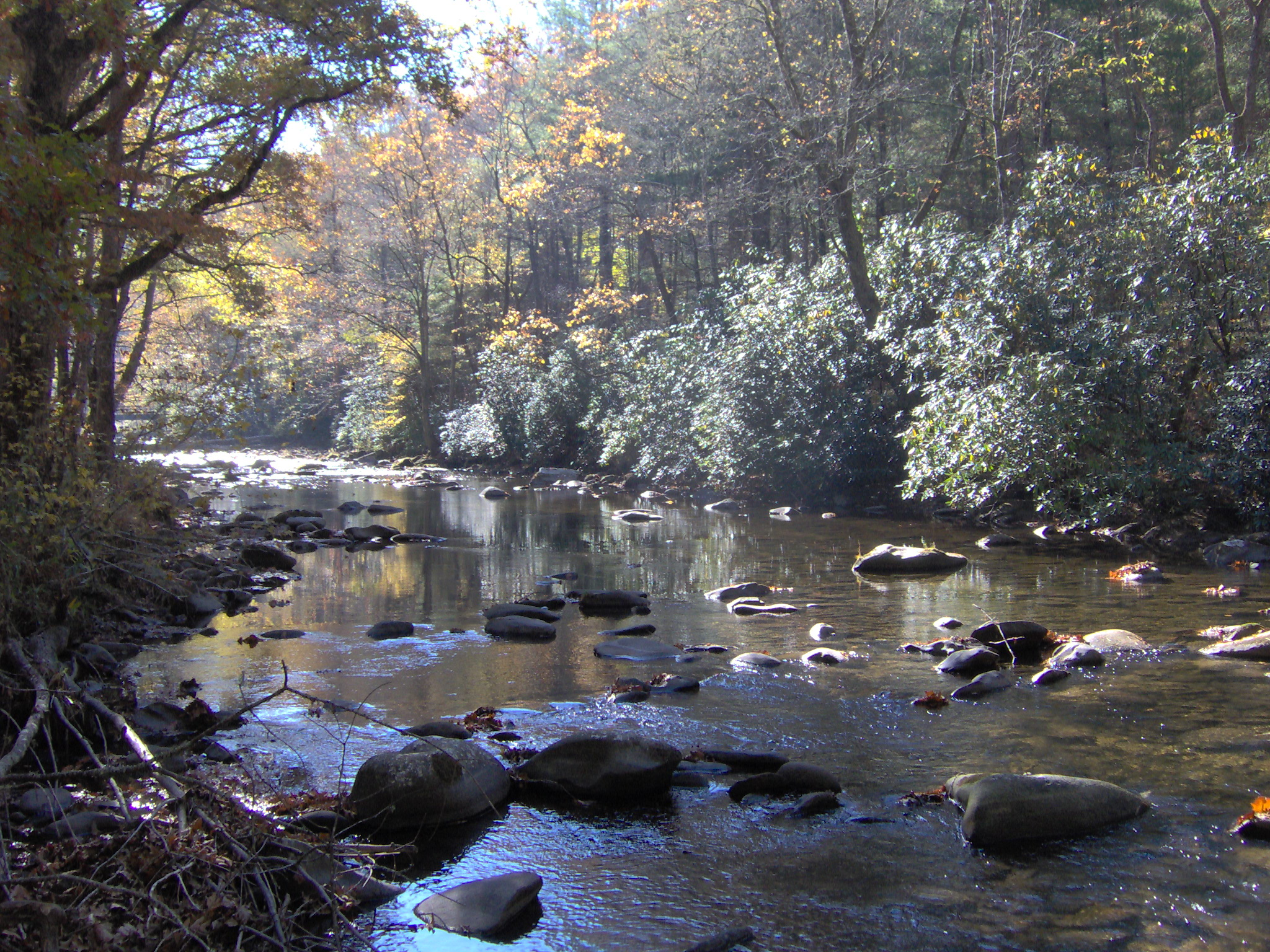 Hazel Creek passes through what was once the town of Proctor in the Great Smoky Mountains of the U.S. state of North Carolina. This view is from a section of the creek adjacent to the Granville Calhoun house (N35.47486°, W83.72298°), looking upstream.